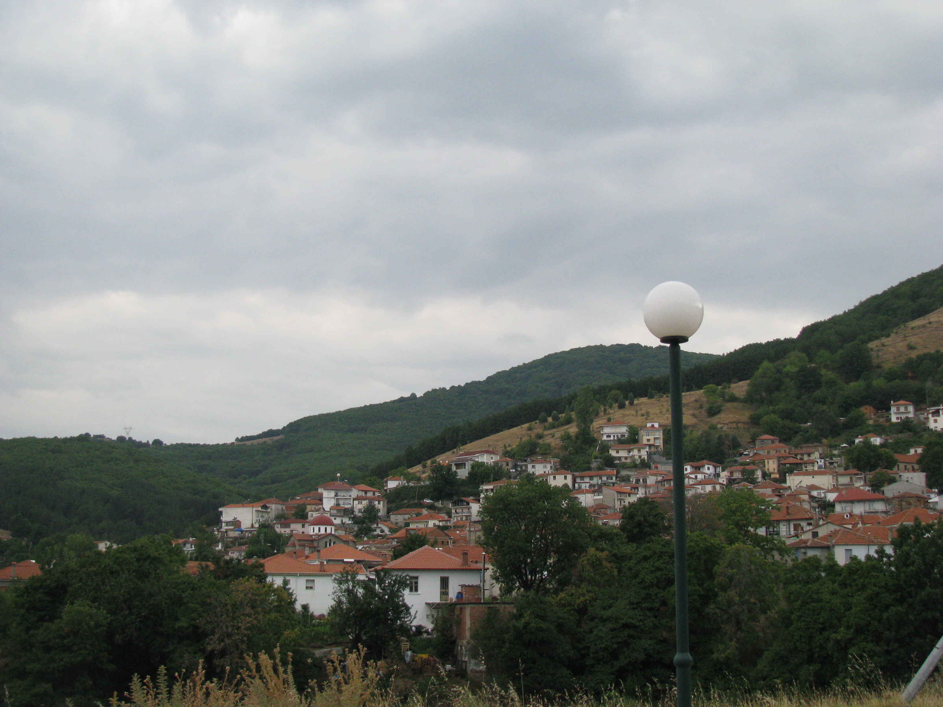 Village of Lehovo or Lehovon, Central Macedonia, Greece